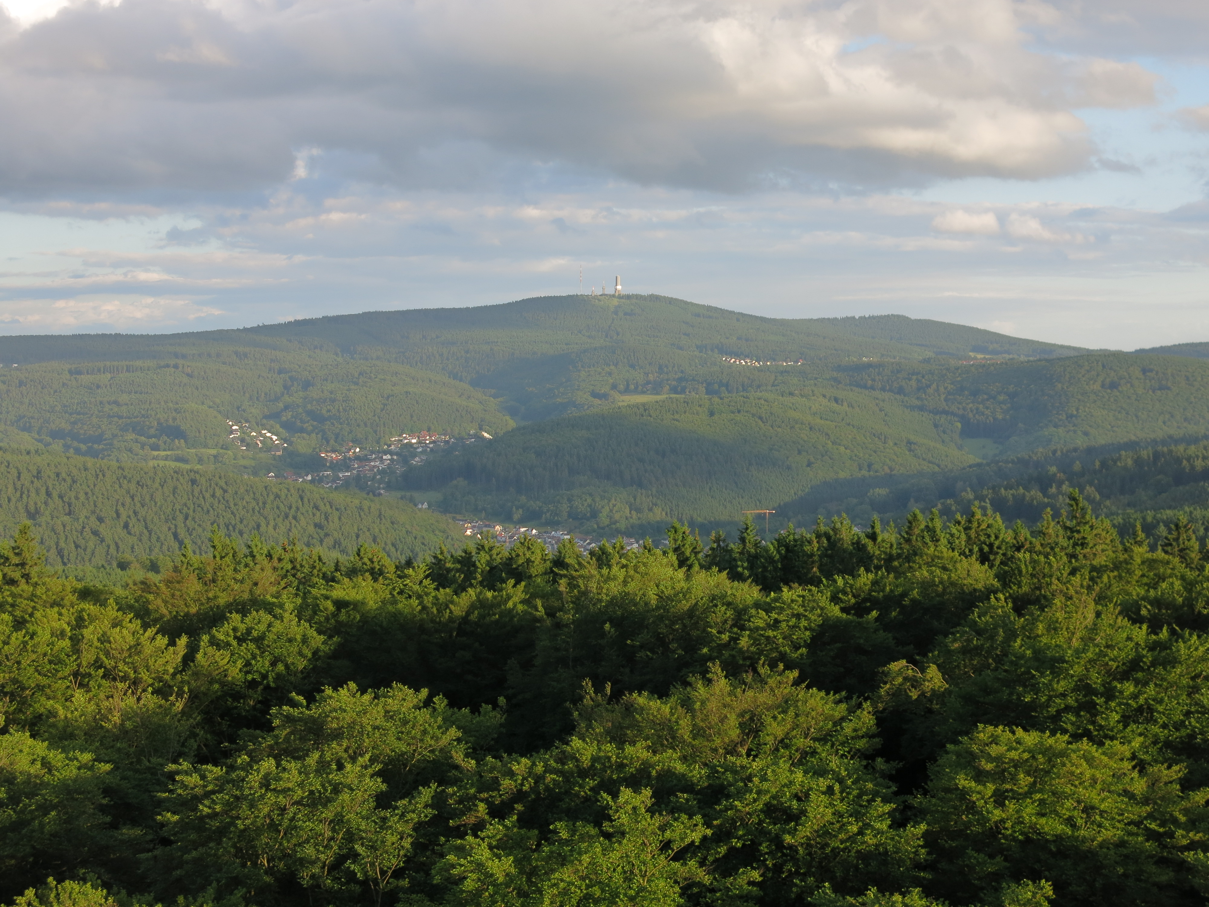 Großer Feldberg in the Taunus mountains, seen from north (lookout tower on Pferdskopf)